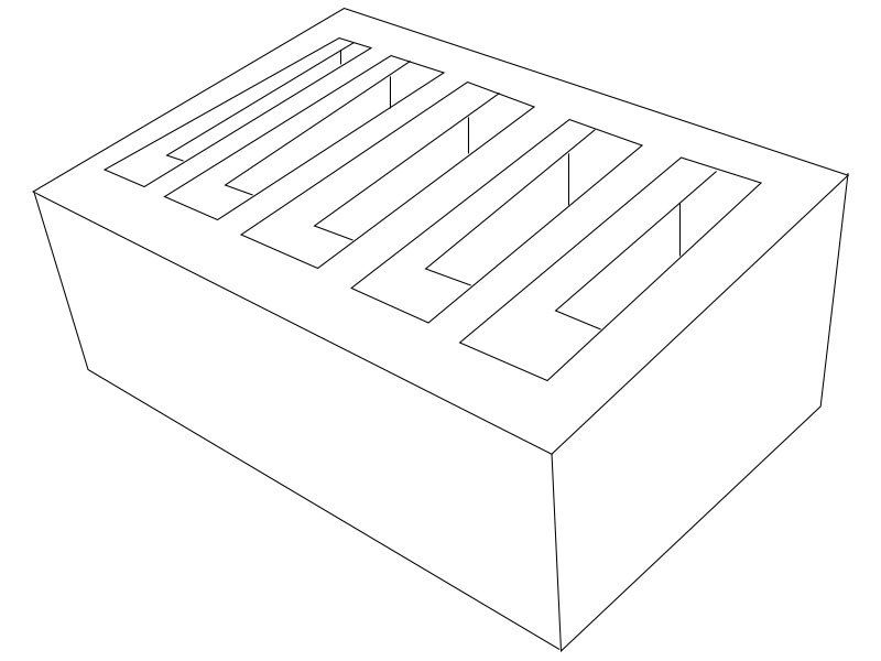 5-Bays Docking Station 5Bay